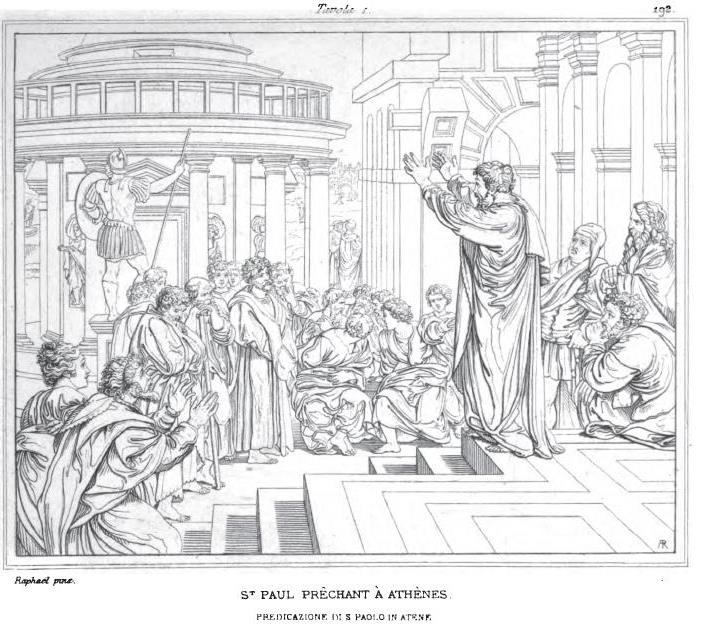 Saint Paul prêchant à Athènes (engraving after Raphael's painting)